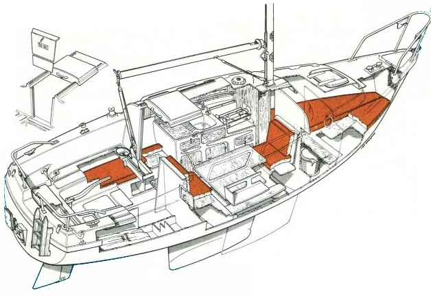 Leisure 23 plan